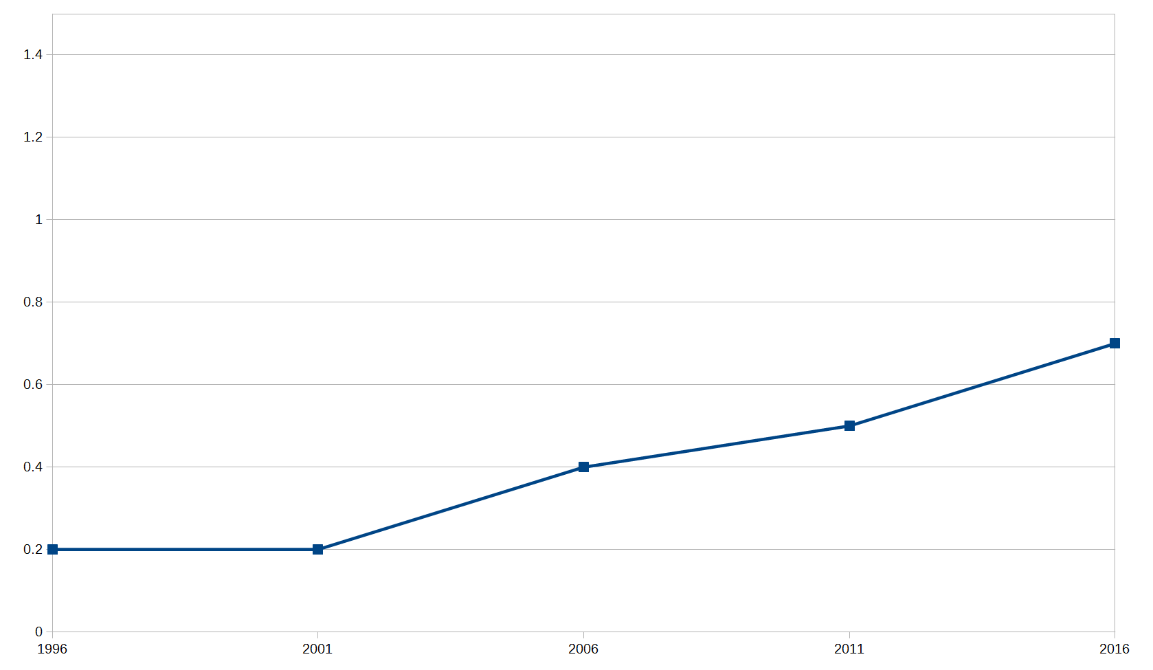 Canada Census Multiple Visible Minority 1996 - 2016 Source is Template:Demographics of Canada which uses census data